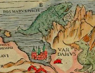 Atlantic Walrus sketch, from Olaus Magnus' 1539 Carta marina; figure B-B